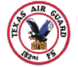 182 Fighter Squadron emblem Texas Air National Guard Image